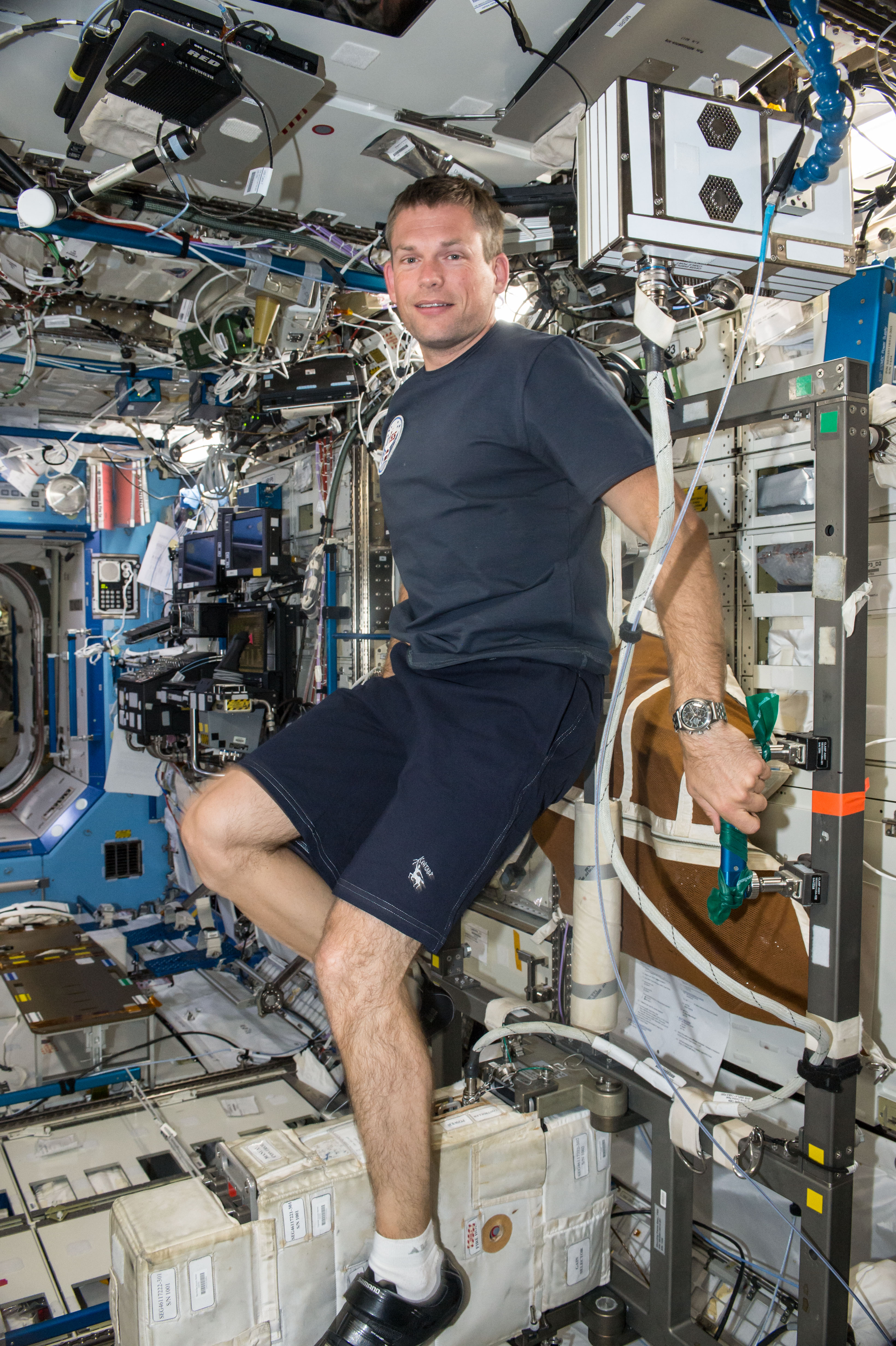 Danish/ESA astronaut Andreas Mogensen is seen working out on a stationary bicycle inside the U.S. Destiny Laboratory. Mogensen lived and worked on the International Space Station during September 2015. This 10-day mission was Andreas's first spaceflight and the first ever by a Danish national.